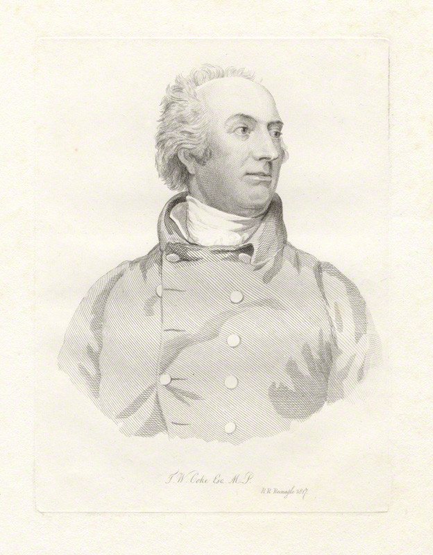 Portrait of Thomas William Coke, 1st Earl of Leicester